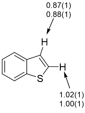 1H KIEs for beta-arylation of benzo[b]thiophenese 3